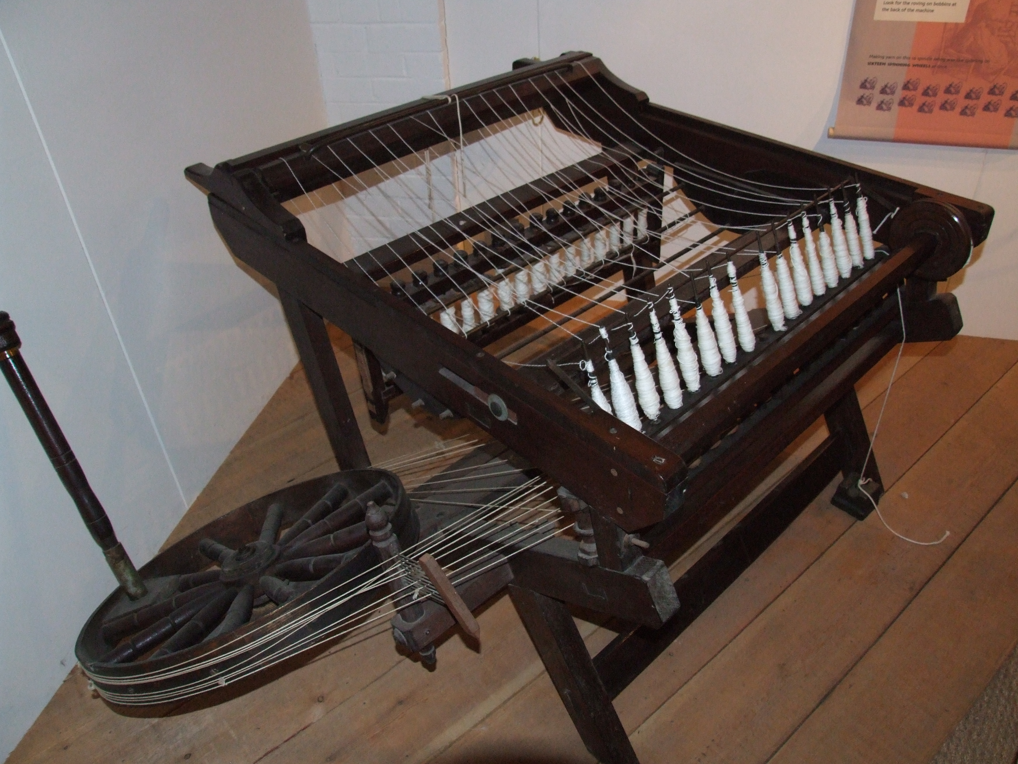 Helmshore Mills Textile Museum. Spinning Jenny